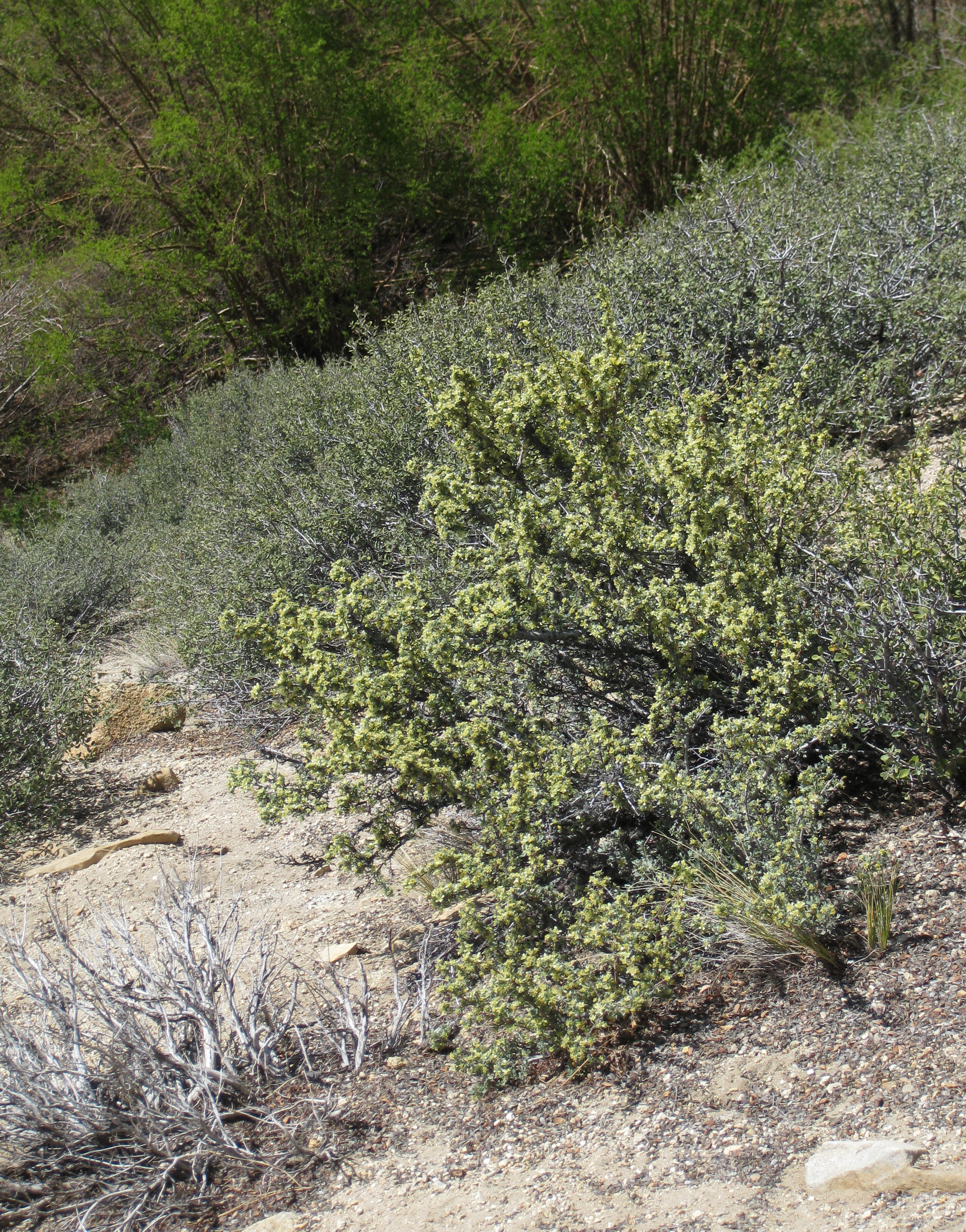 Bitterbrush, or antelope brush (Purshia tridentata), plant in flower. On dry slope at 7000ft in Mono County, Eastern Sierra Nevada USA.